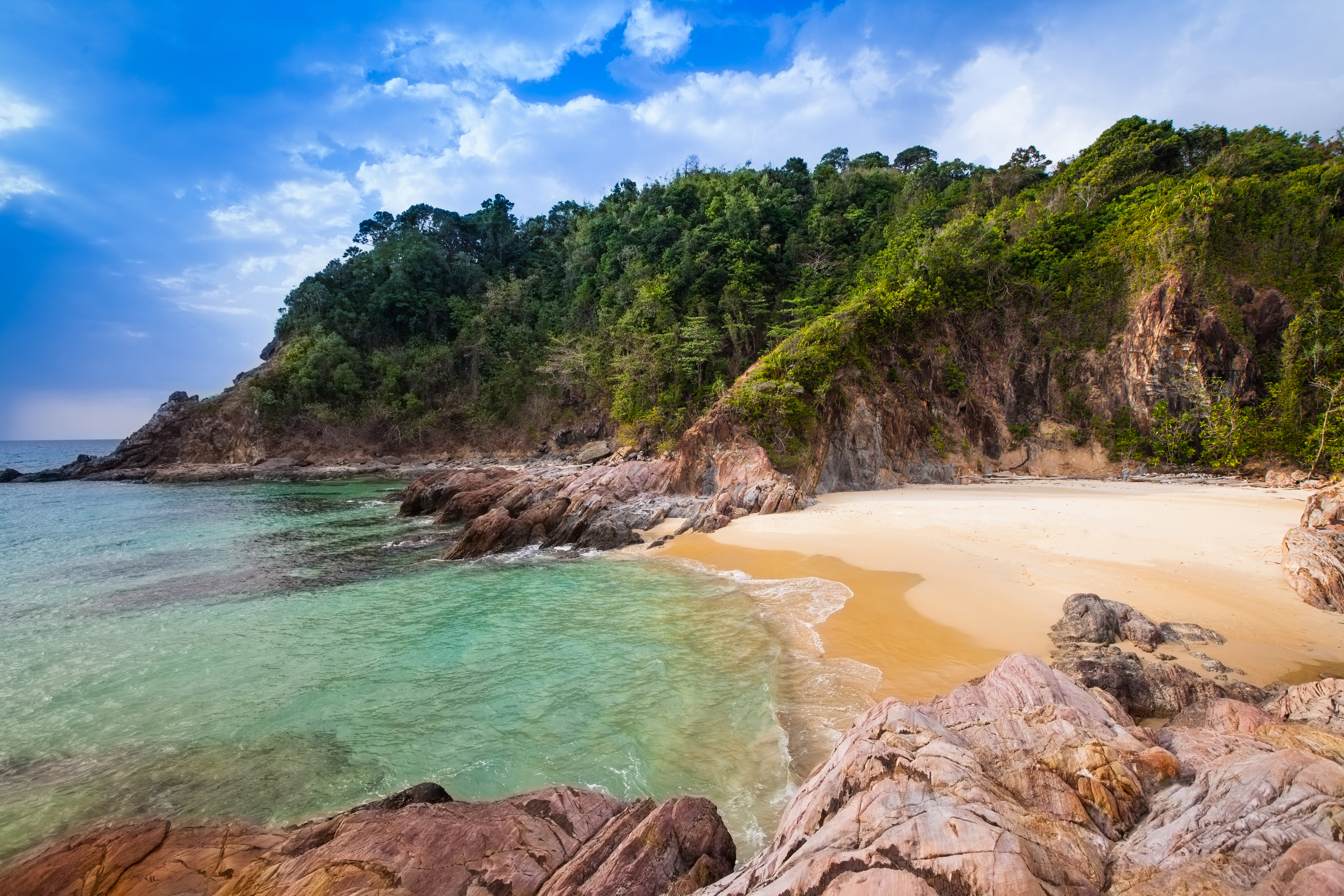 อุทยานแห่งชาติเขาลำปี-หาดท้ายเหมือง